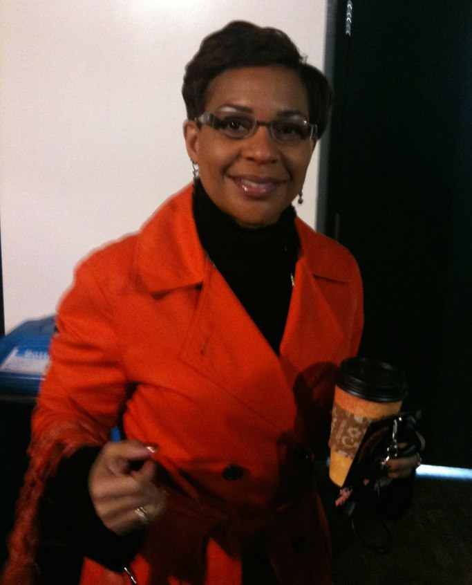 AT&T Park stadium announcer and radio host Renel Brooks-Moon signing autographs for fans who ran into her during a clubhouse tour at Giants Fanfest 2010.